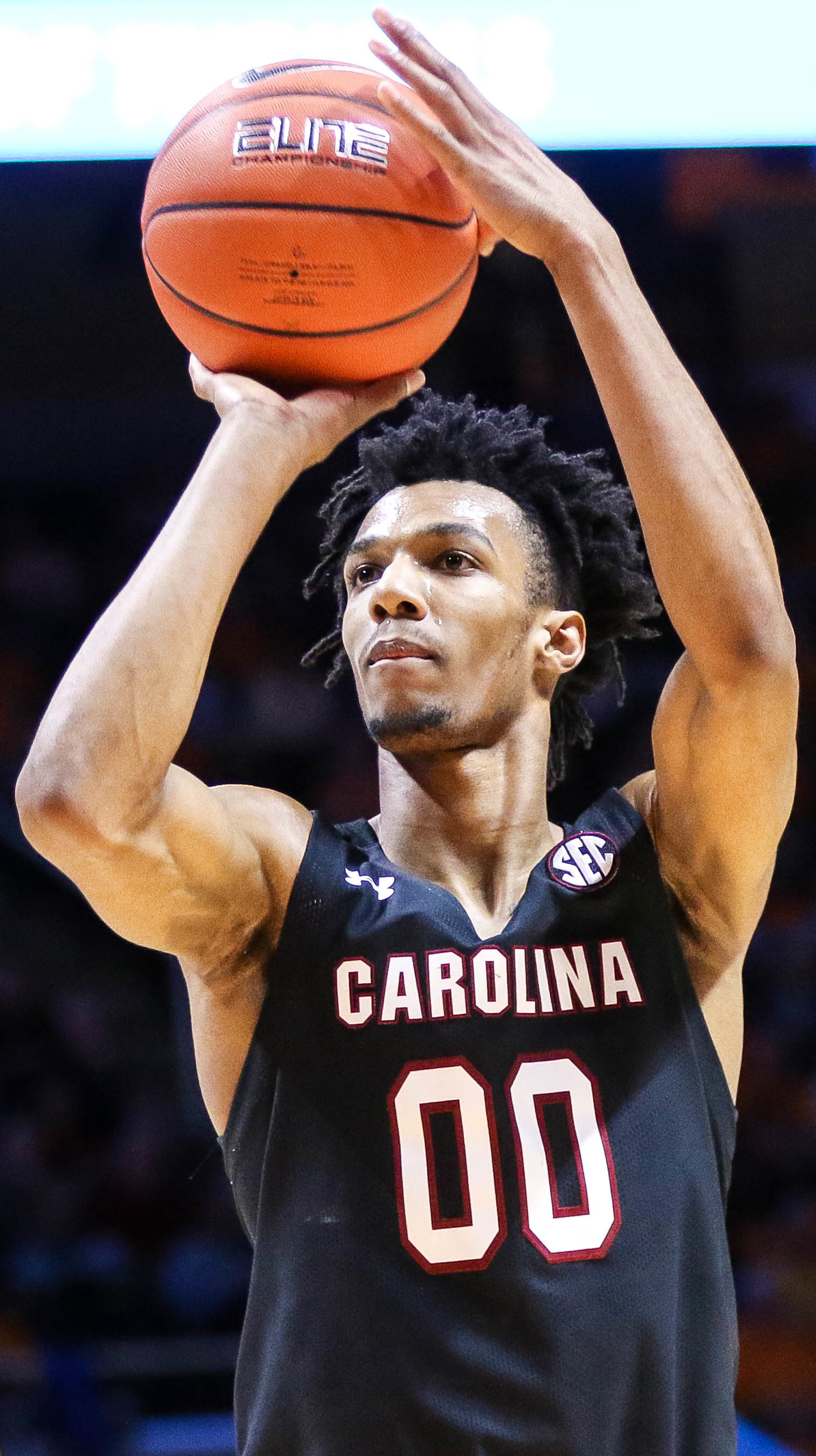 Photo by Katie Dugan